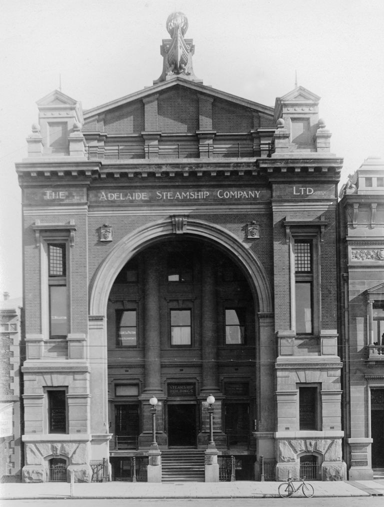 This dramatic building with its archway and columns, was designed by Alfred Wells and built in 1903 for the Adelaide Steamship Company. The Company was founded in 1875 and for more than 100 years was Australia's largest passenger and cargo shipping company. A sculpture of a ship's prow, symbol of the company, topped the building. In 1939-40 the company refaced the building and all the exterior detailing was destroyed. The building was demolished in 1986 making way for the atrium of the State Bank, Adelaide's tallest building, now Westpac House. Held at State Library of South Australia, Call no: B 1800